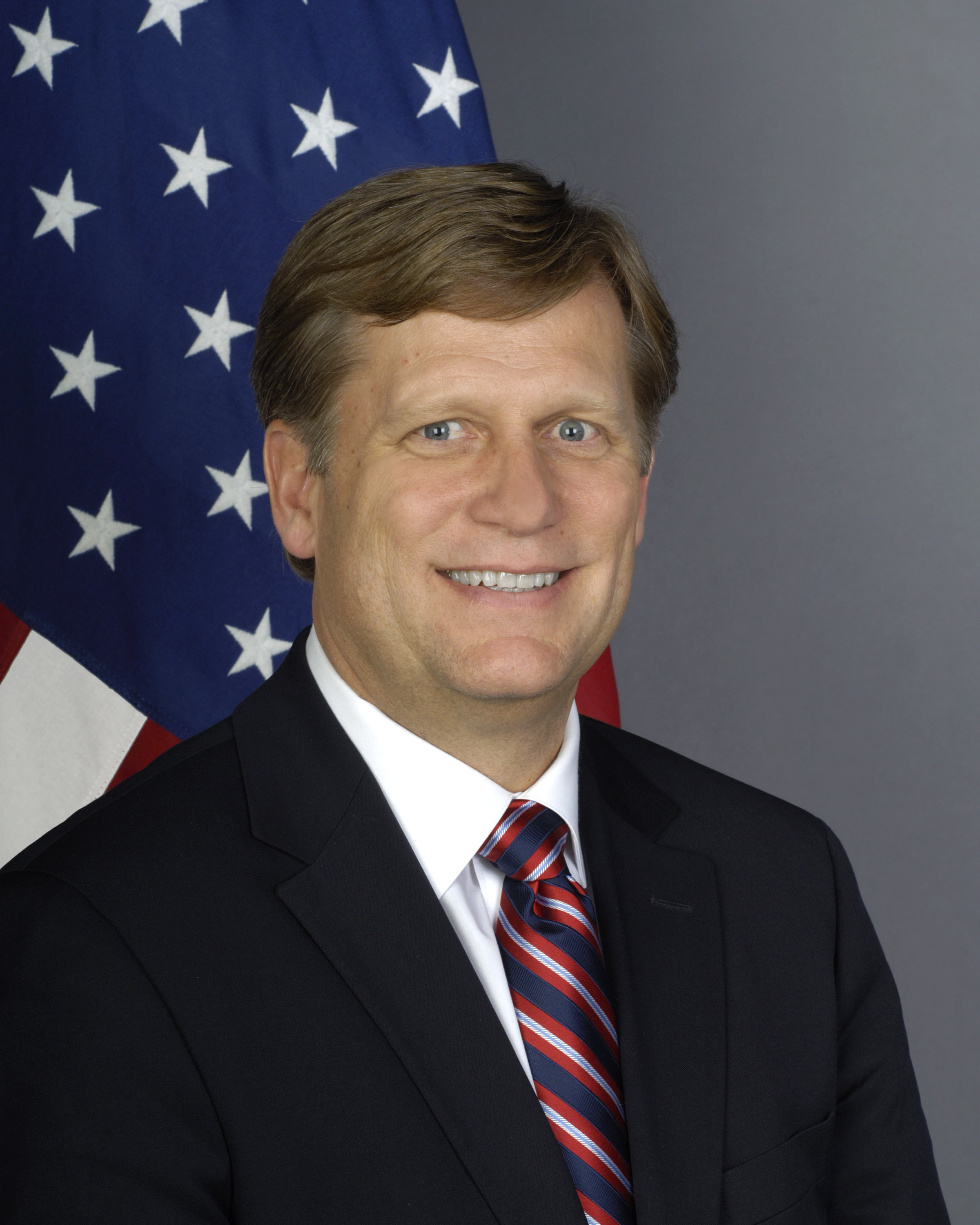 Michael McFaul. Ambassador of the United States of America to the Russian Federation